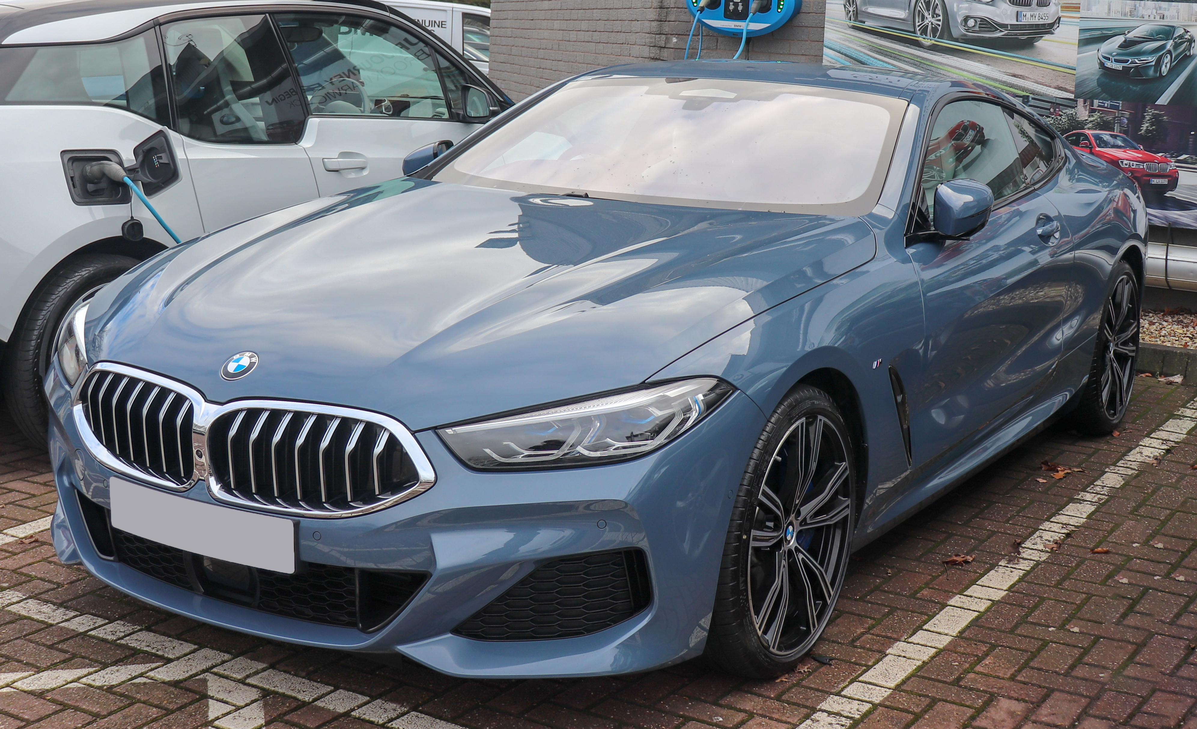 2018 BMW 840d xDrive Automatic 3.0 Taken in Leamington Spa